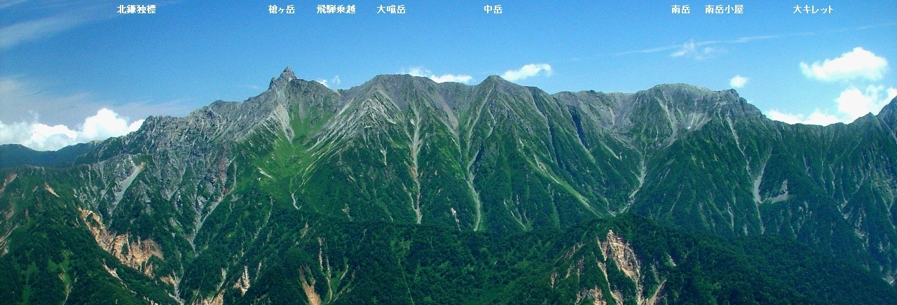 Mount Yari from Mount Nukedo